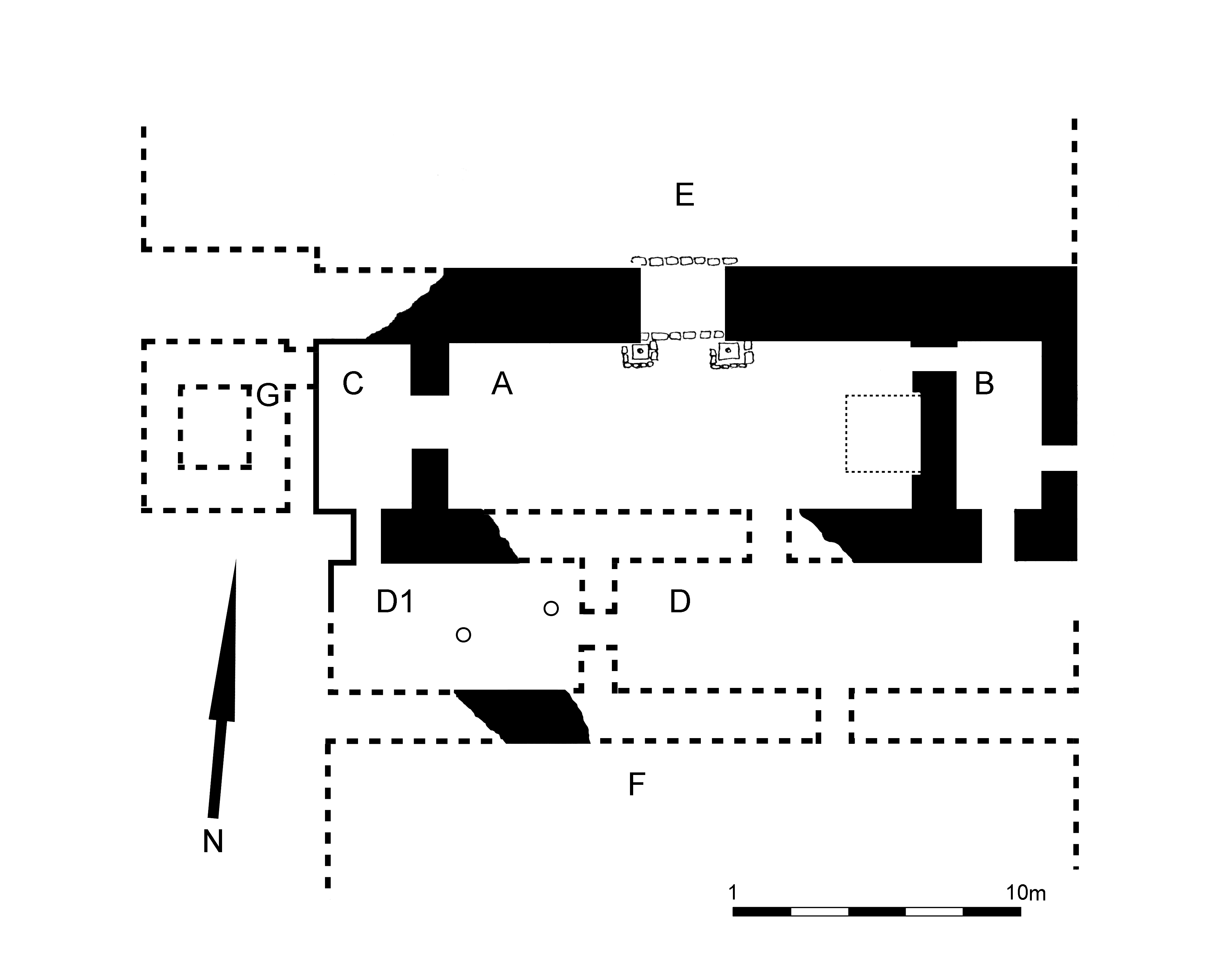 Assyrian Palace plan from Ayelet Hashahar Archaeology site